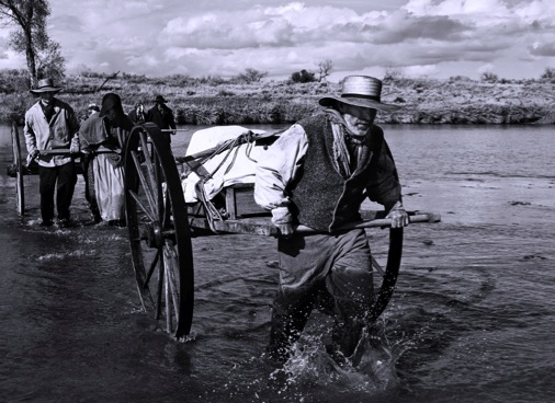 photo of handcarts crossing Platte River